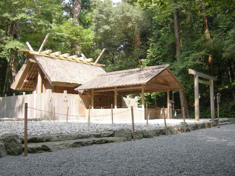 The Betsugu Kazahinomi-no-miya Sanctuary of Kotaijingū(Naikū) at Ise city, Mie prefecture, Japan.